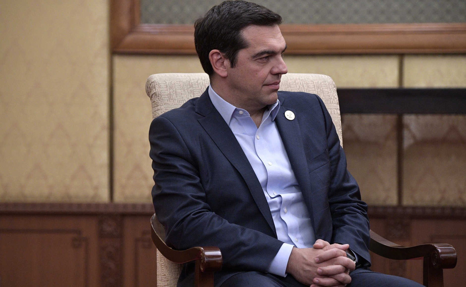 Greek Prime Minister Alexis Tsipras